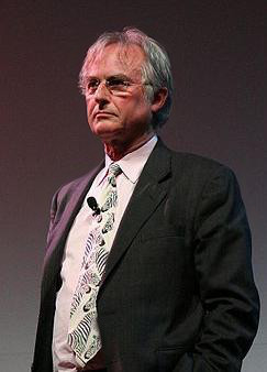 Dawkins at the University of Texas at Austin.